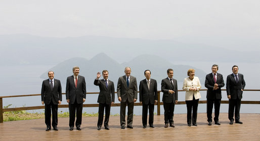 Leaders of Group of Eight pose for the official family photograph in Tōyako Town, Abuta District, Hokkaidō on July 8, 2008.